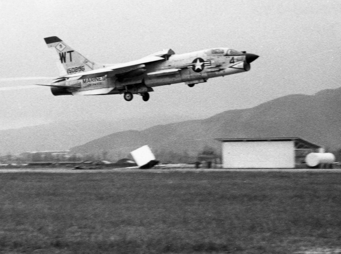 A U.S. Marine Corps Vought F-8E Crusader (BuNo 150295) of Marine All-Weather Fighter Squadron VMF(AW)-232 "Red Devils" taking off from DaNang, South Vietnam. It is armed with Zuni rockets and M117 340 kg bombs.